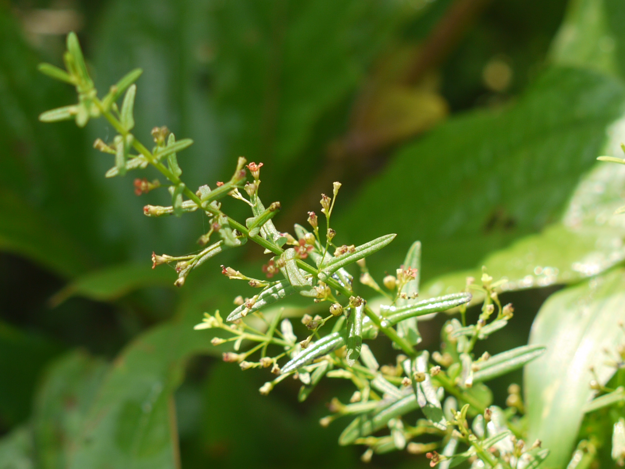 Lythraceae (Lythrum, or loosestrife family) » Ammannia multiflora am-MAH-nee-uh -- named for Paul Ammann, German botanist mul-tih-FLOR-uh -- many flowers commonly known as: many-flowered ammannia Native to: Asia, tropical and subtropical Africa, Australia References: eFlora • Floristic Survey of Institute of Science